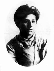 Fanny Kaplan, Russian socialrevolutioner and terrorist